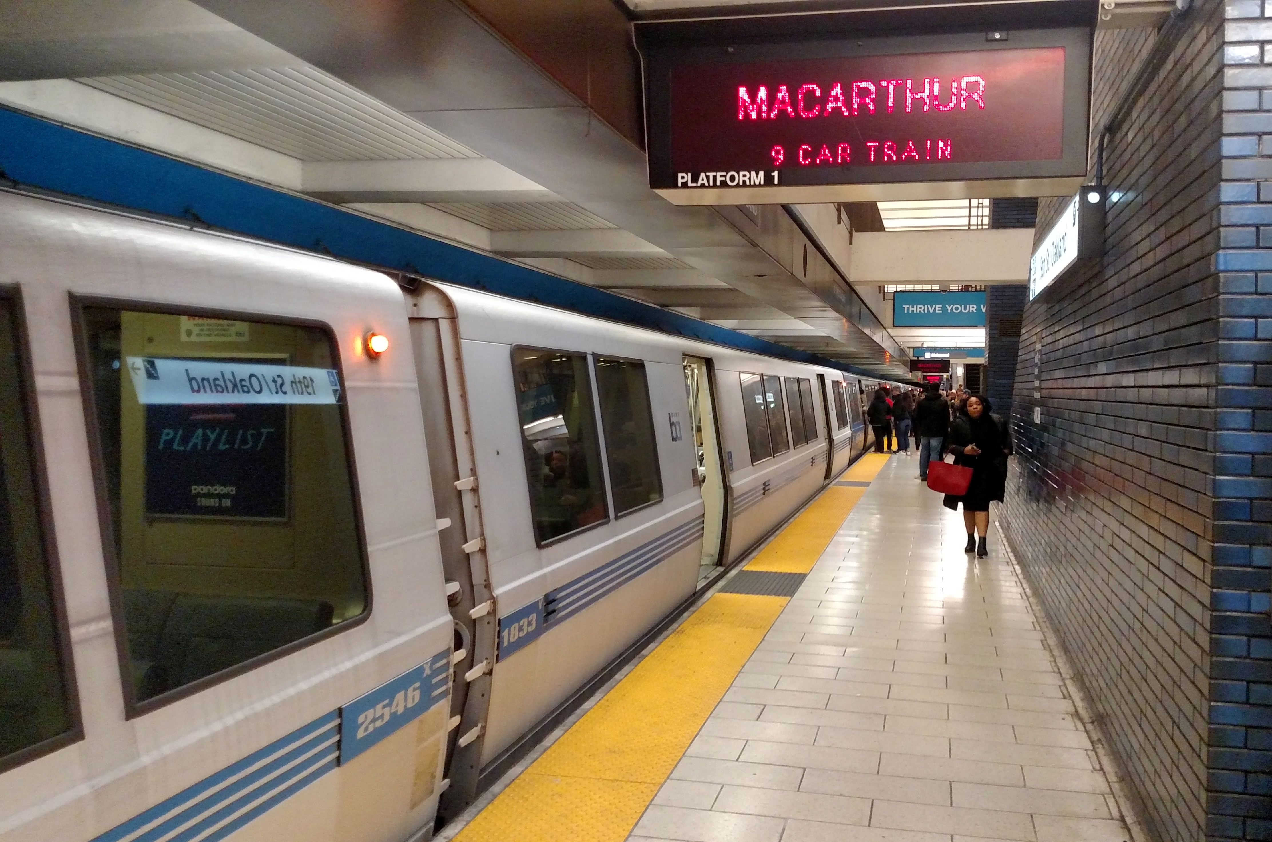 A Dublin/Pleasanton-MacArthur train at 19th Street Oakland station in February 2019. Beginning on the 11th of that month, Dublin/Pleasanton trains were rerouted to MacAarthur on Sundays to allow single-tracking in the Market Street Subway during electrical work.